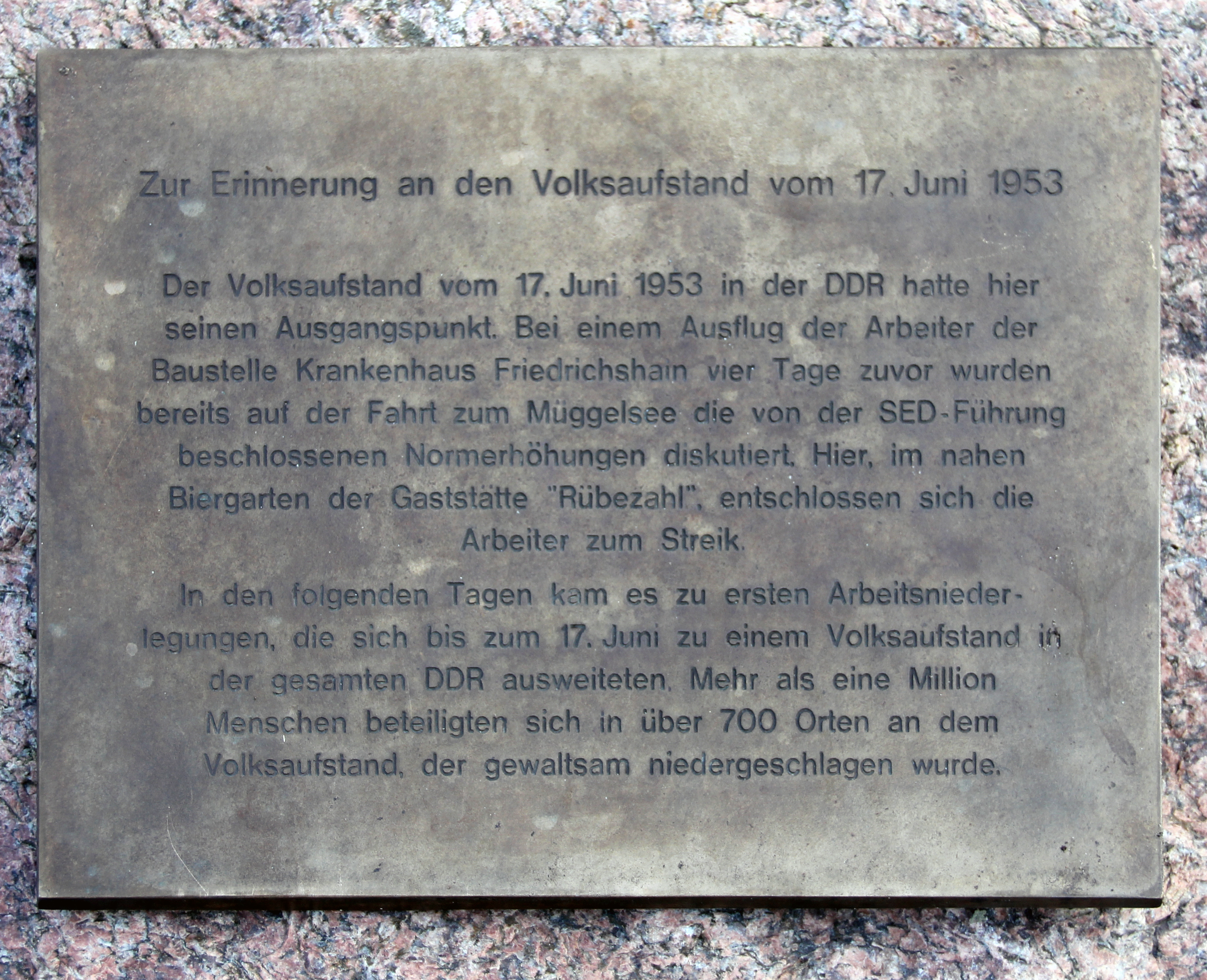 Memorial plaque, 17. Juni 1953, Müggelheimer Damm 143, Berlin-Köpenick, Deutschland